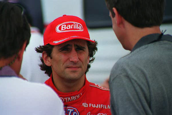 Alex Zanardi at the 1998 CART grand prix in Laguna Seca, California.